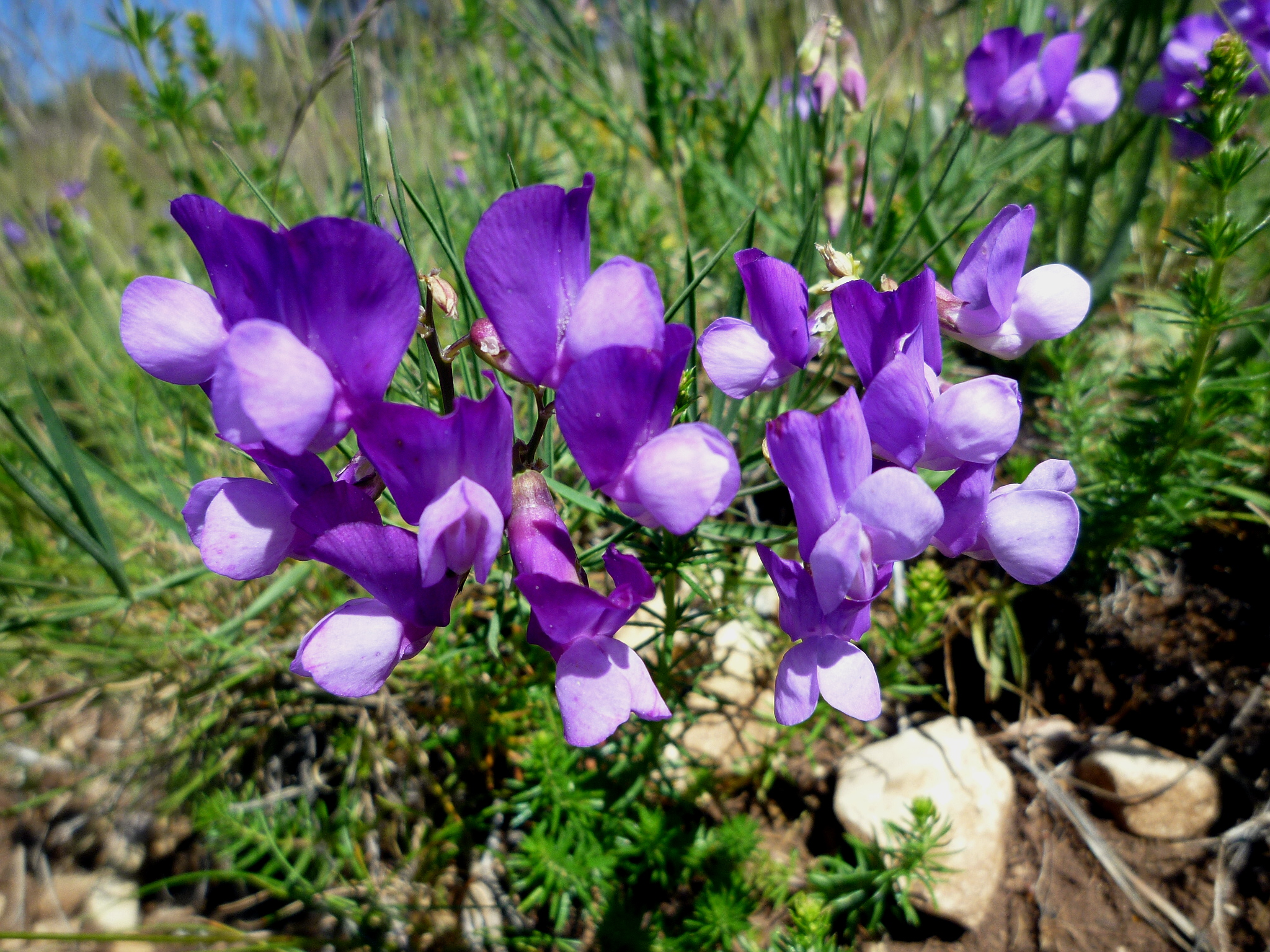 Vicia onobrychioides. In Muntanya d'Alinyà (Alt Urgell-Catalunya). To 1.660 m. altitude